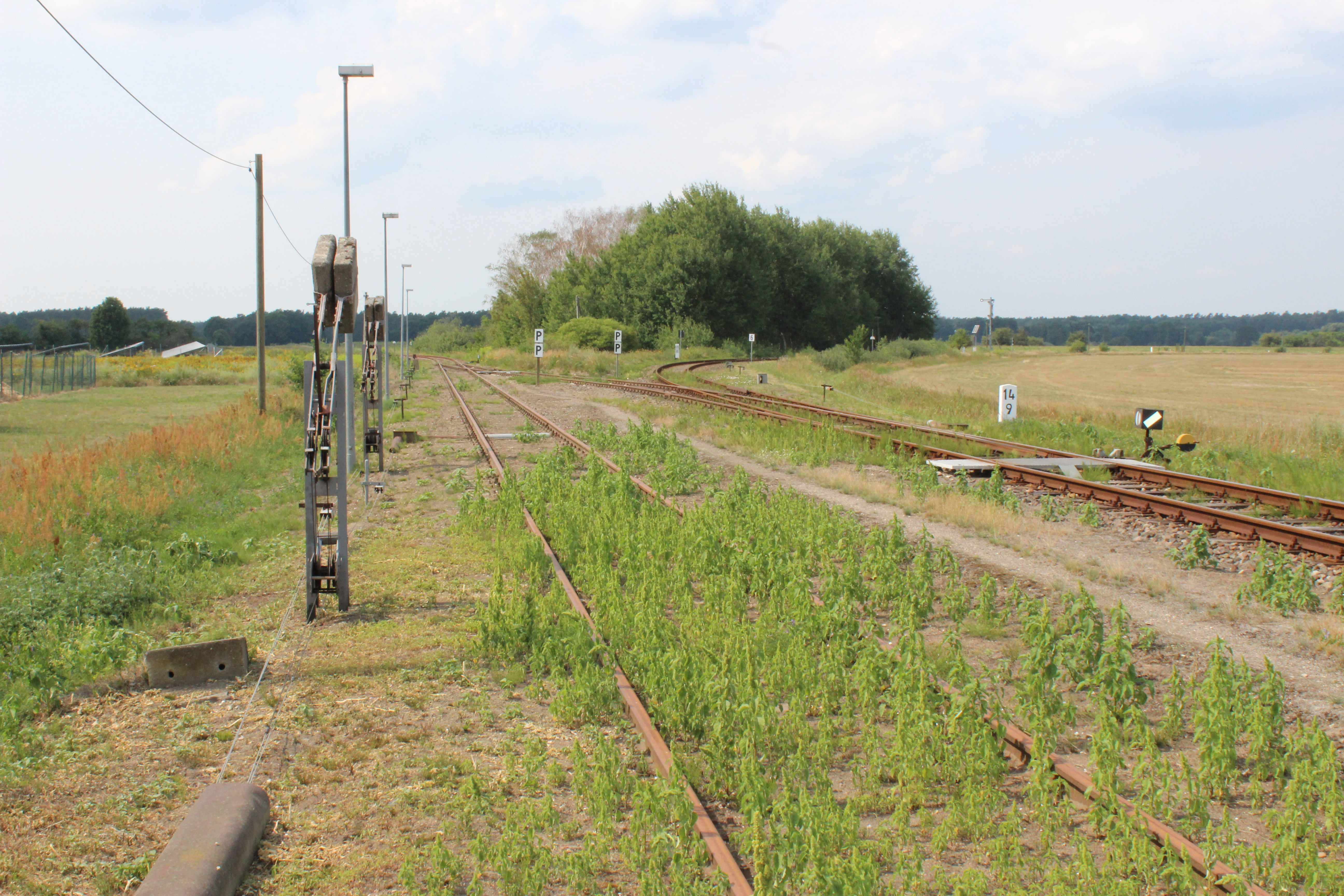 train station Herzberg (Mark), turning